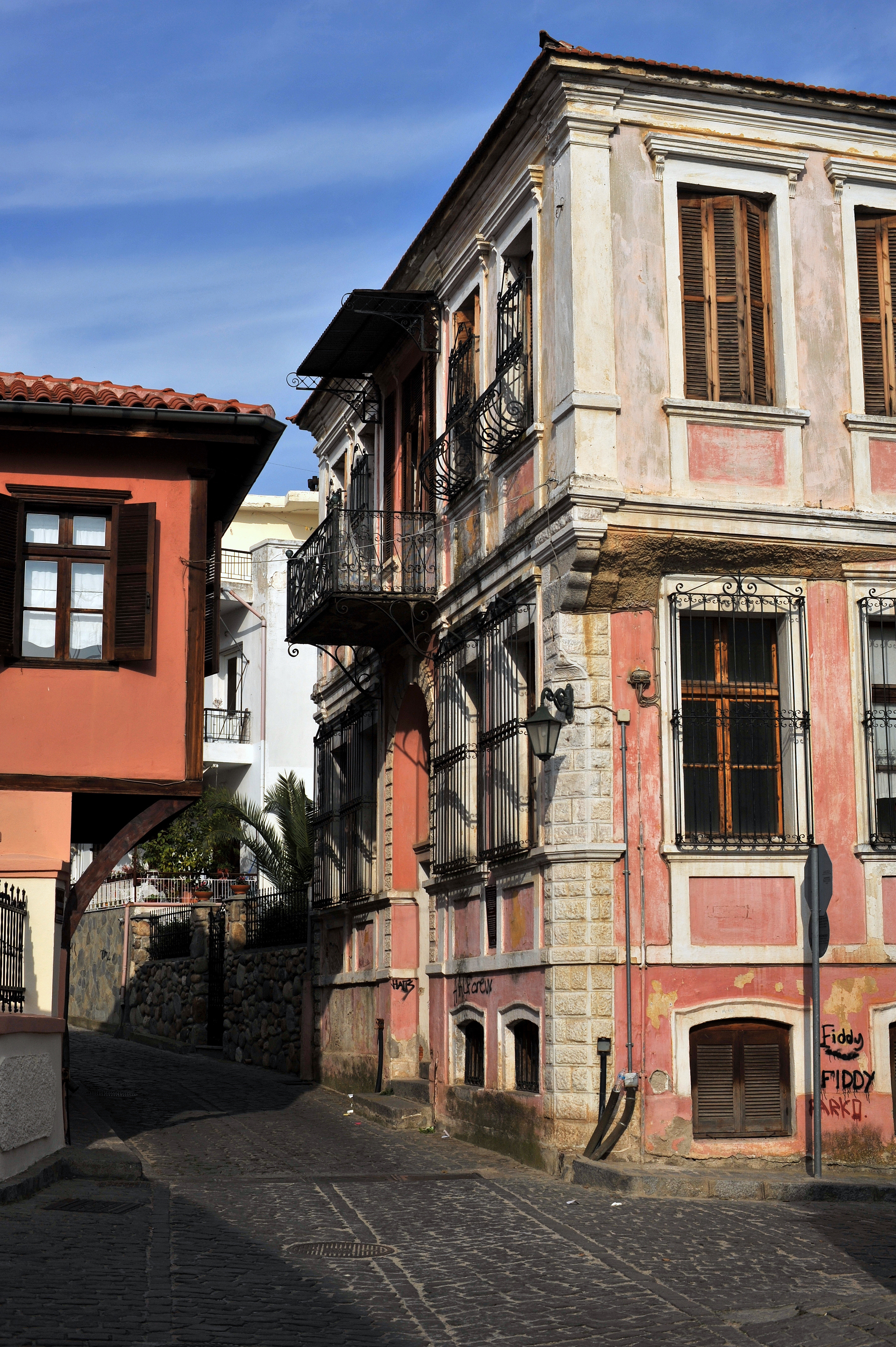 Old town - Xanthi - West Thrace, Greece.